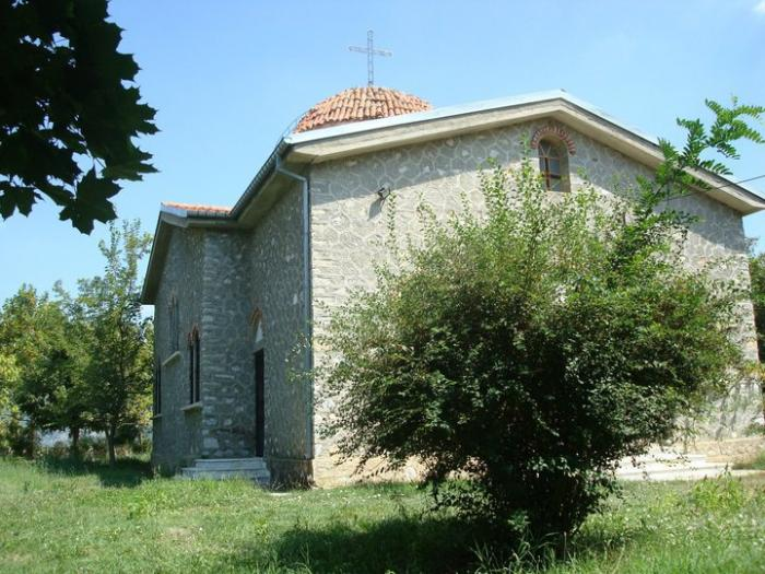 Church of Agios Dionysios ek Korisou, Korisos, Kastoria peripheral unit, West Macedonia, Greece